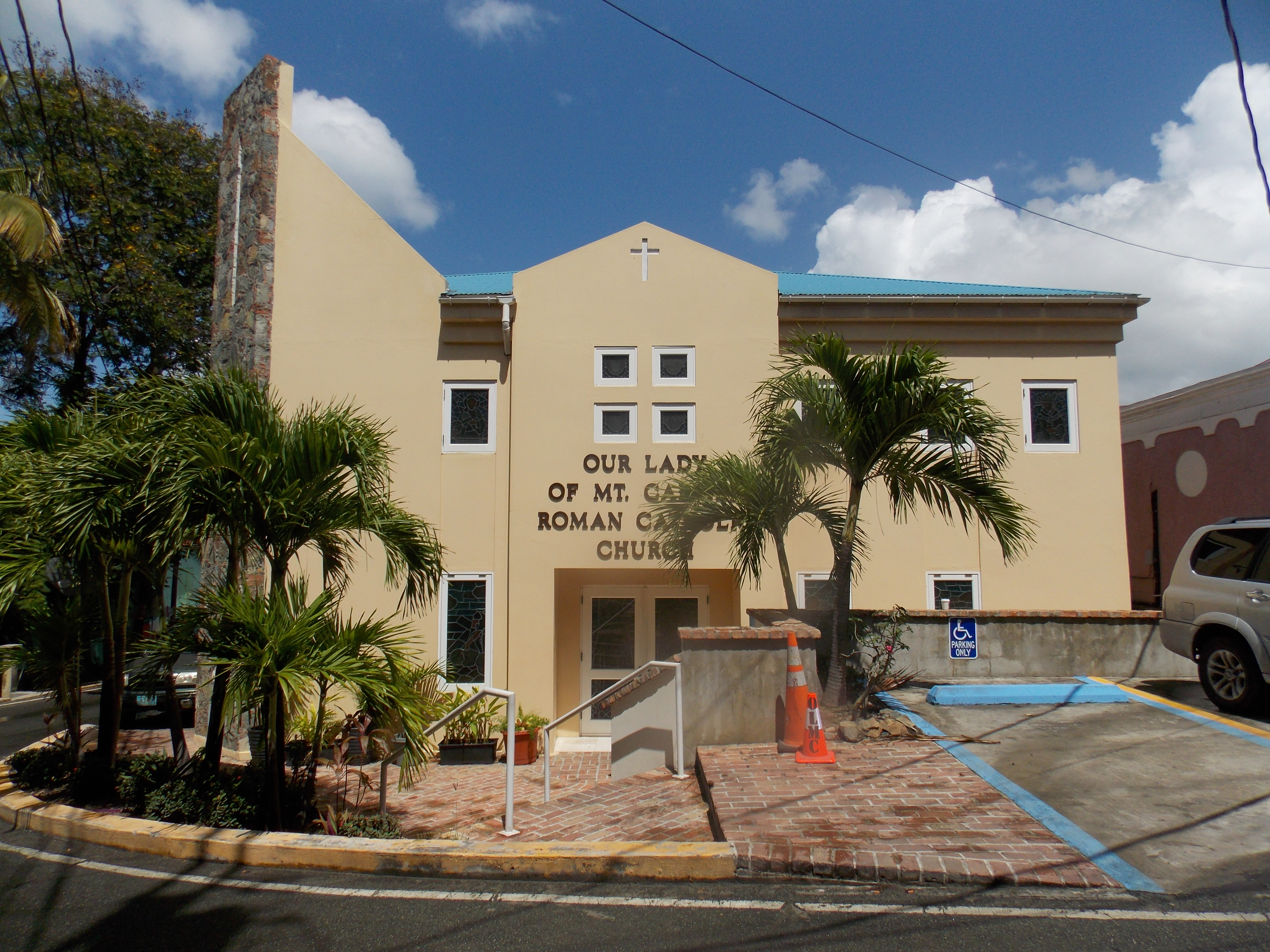 Our Lady of Mount Carmel Catholic Church in Cruz Bay on the island of St. John in the United States Virgin Islands